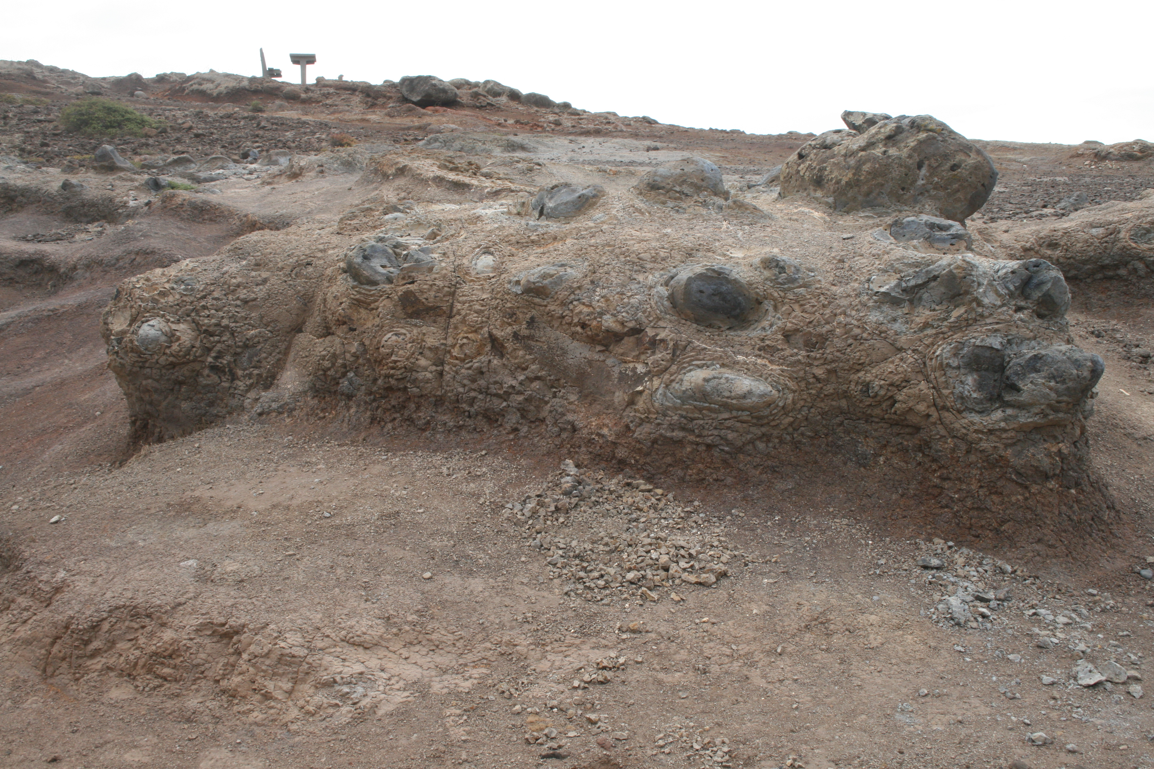 Volcanic bombs, Ponta Sao Lourenço, Madeira